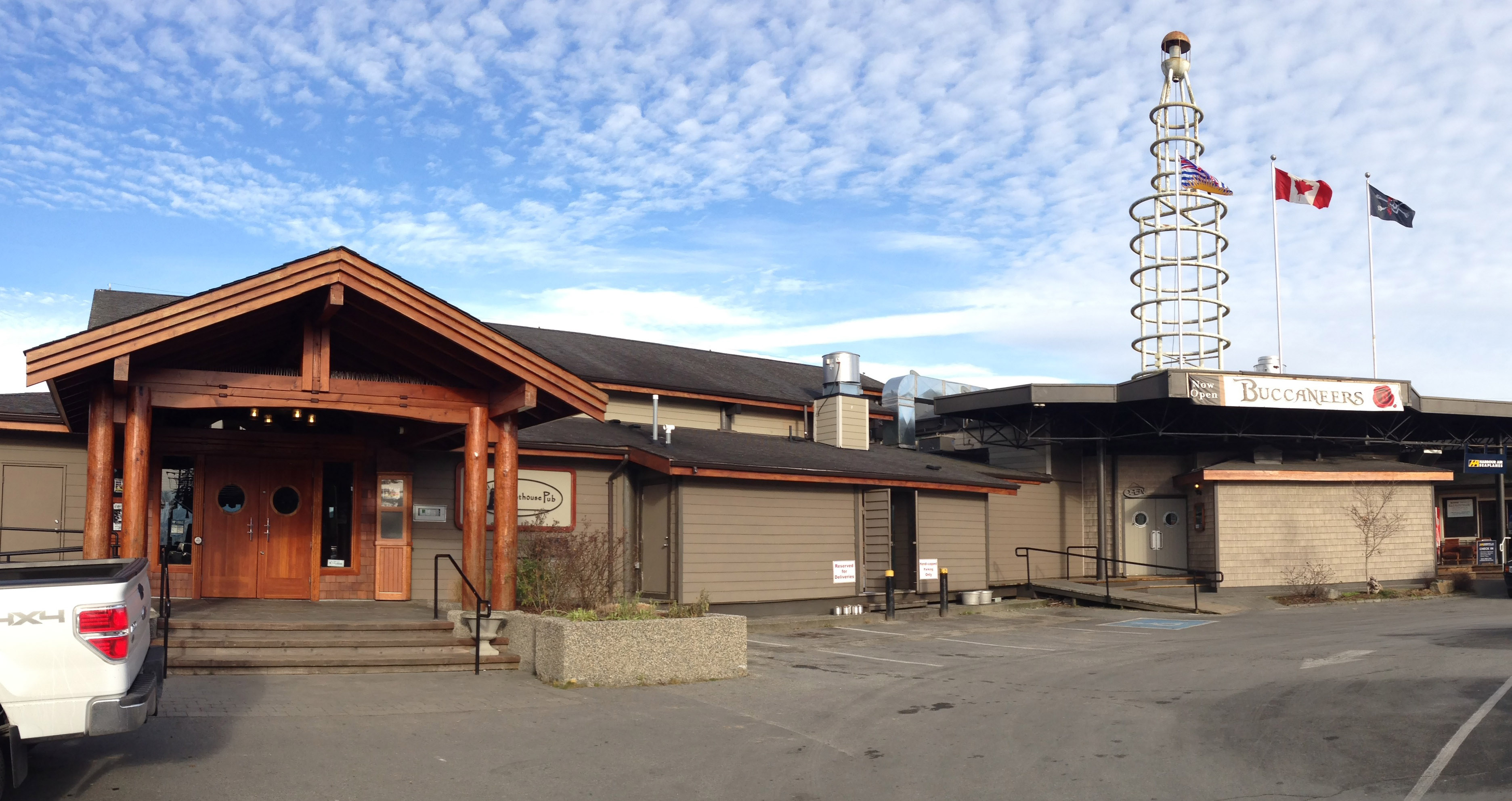 The Lighthouse Pub formerly The China Gate Restaurant from Expo 86 along with the Spaceship from a McDonalds at Expo remodelled to look like a Lighthouse.